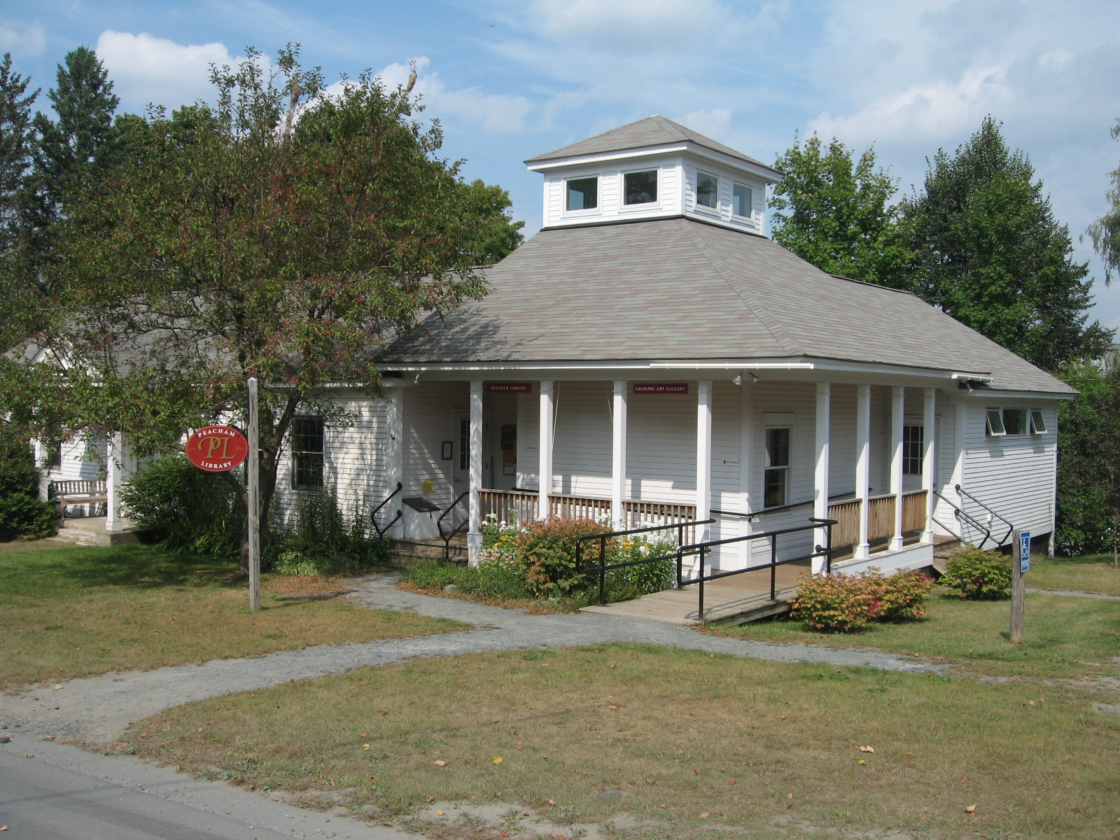 Peacham Library, Vermont